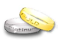 Artist Britton LaRoche. Gold and platinum rings. Released to public domain.